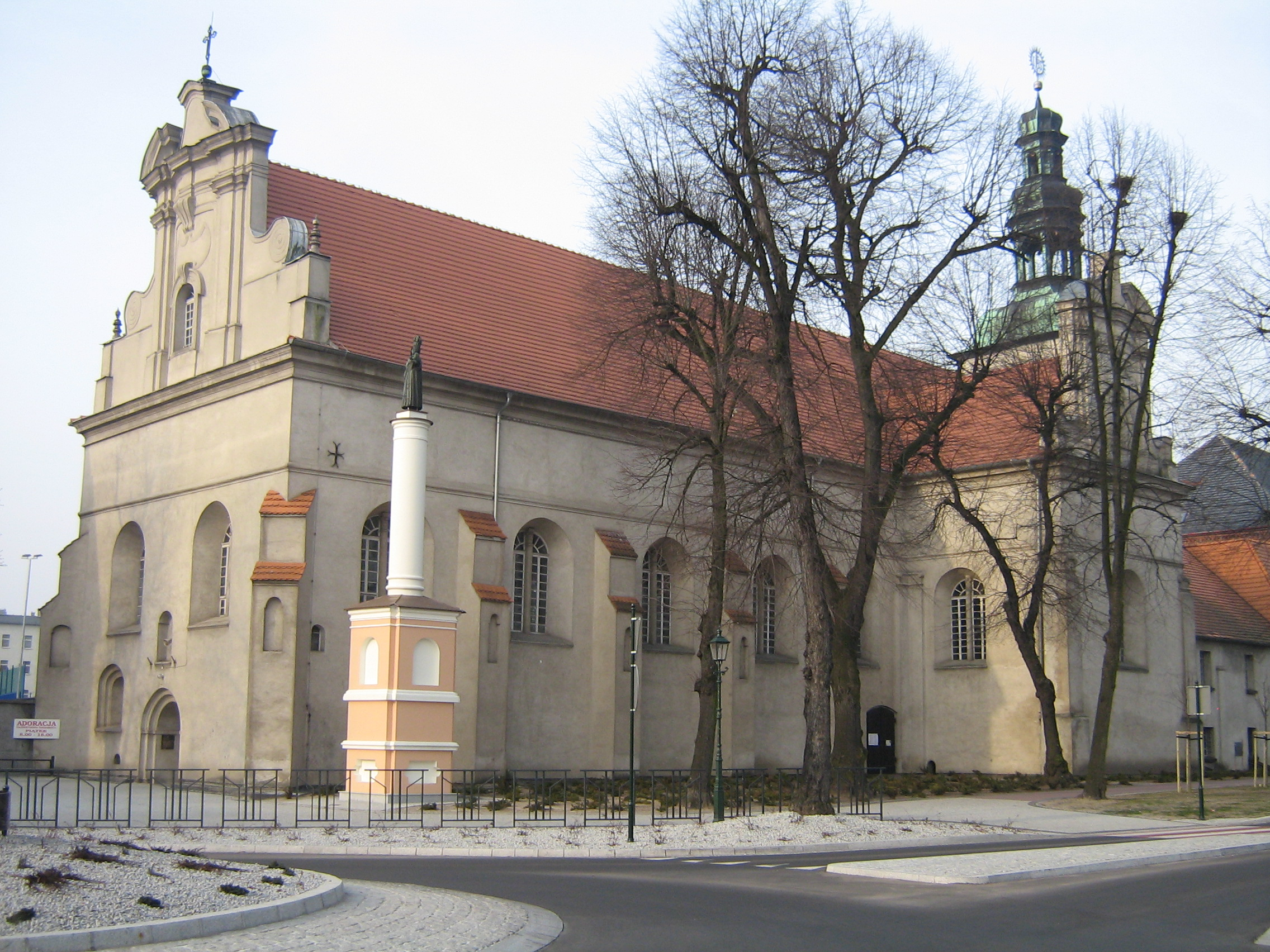 Church and former minster in Grodzisk Wielkopolski (Poland)